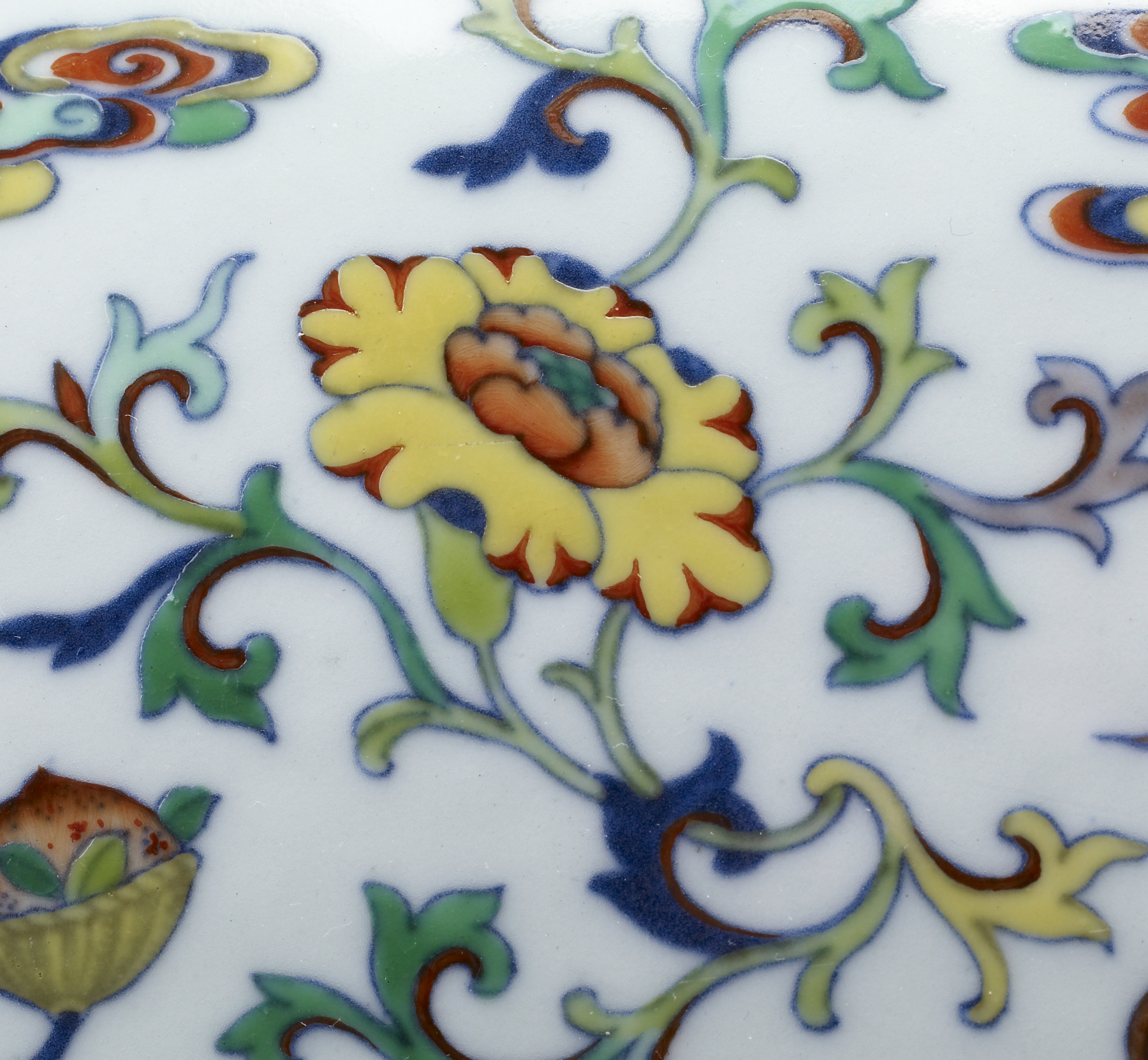 This is an example of "famille rose" porcelain.